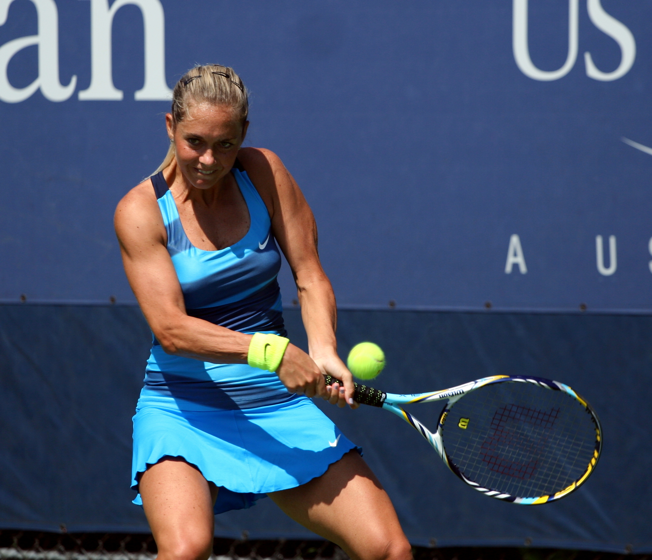 Klára Zakopalová at the 2012 US Open